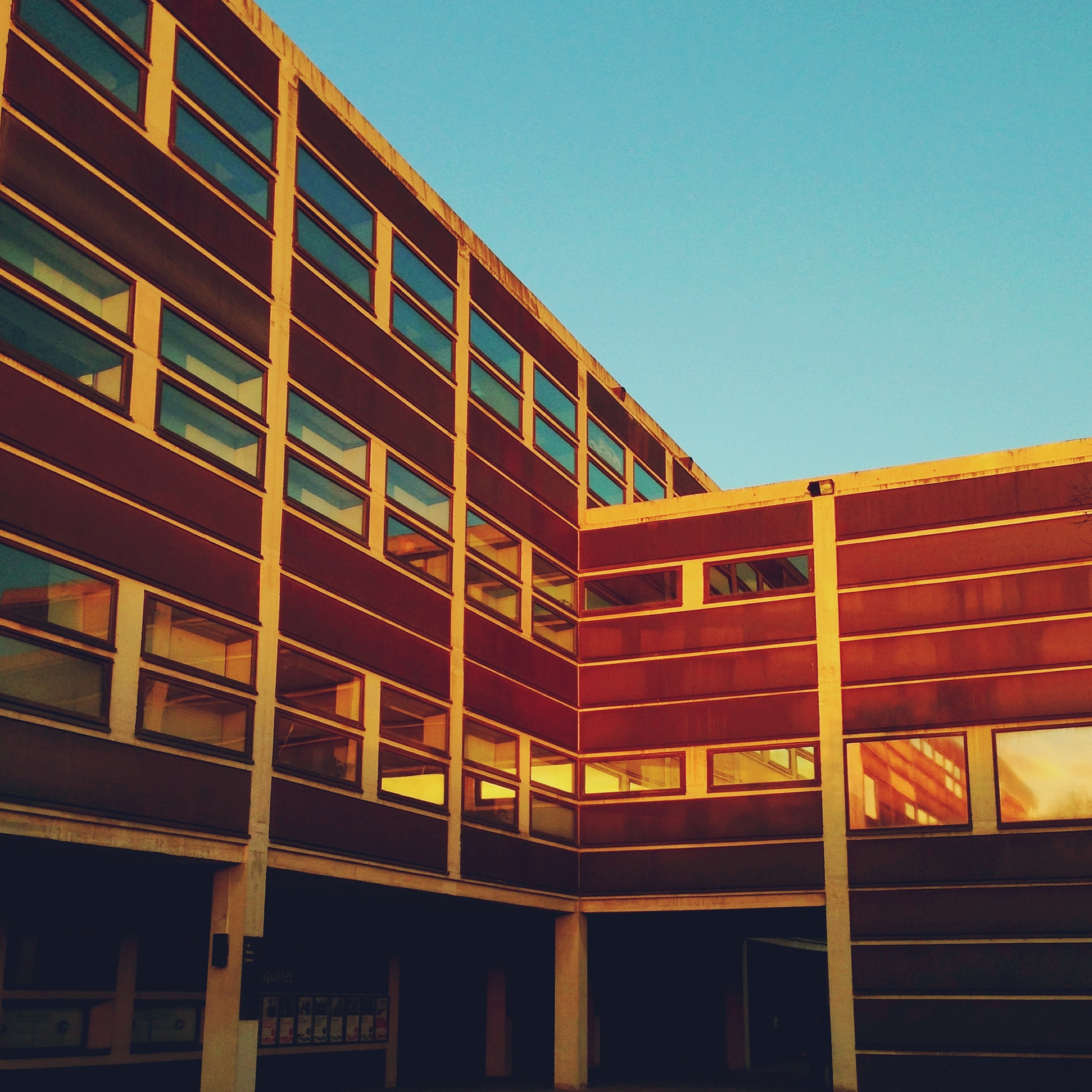 Facade of the Music Museum of Barcelona